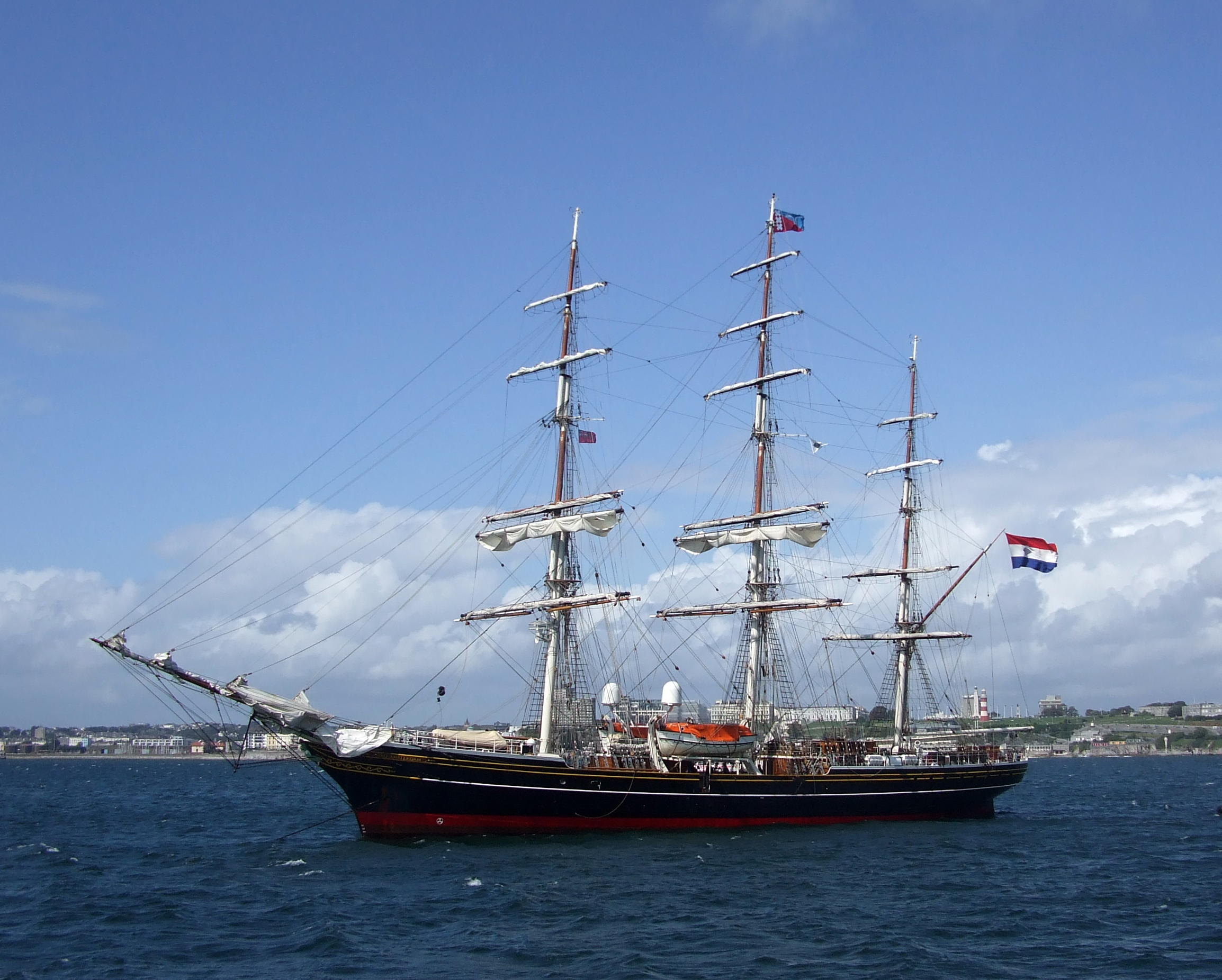 A view of the Dutch tall ship 'Stad Amsterdam' in 2009 off the coast of Plymouth, UK